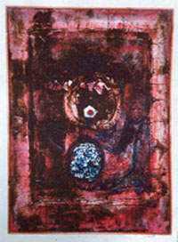 this is a photograph of Red Future? This is an important artwork by Michael Bowen about McCarthyism and was featured at the Whitney Museum of Modern Art in New York City